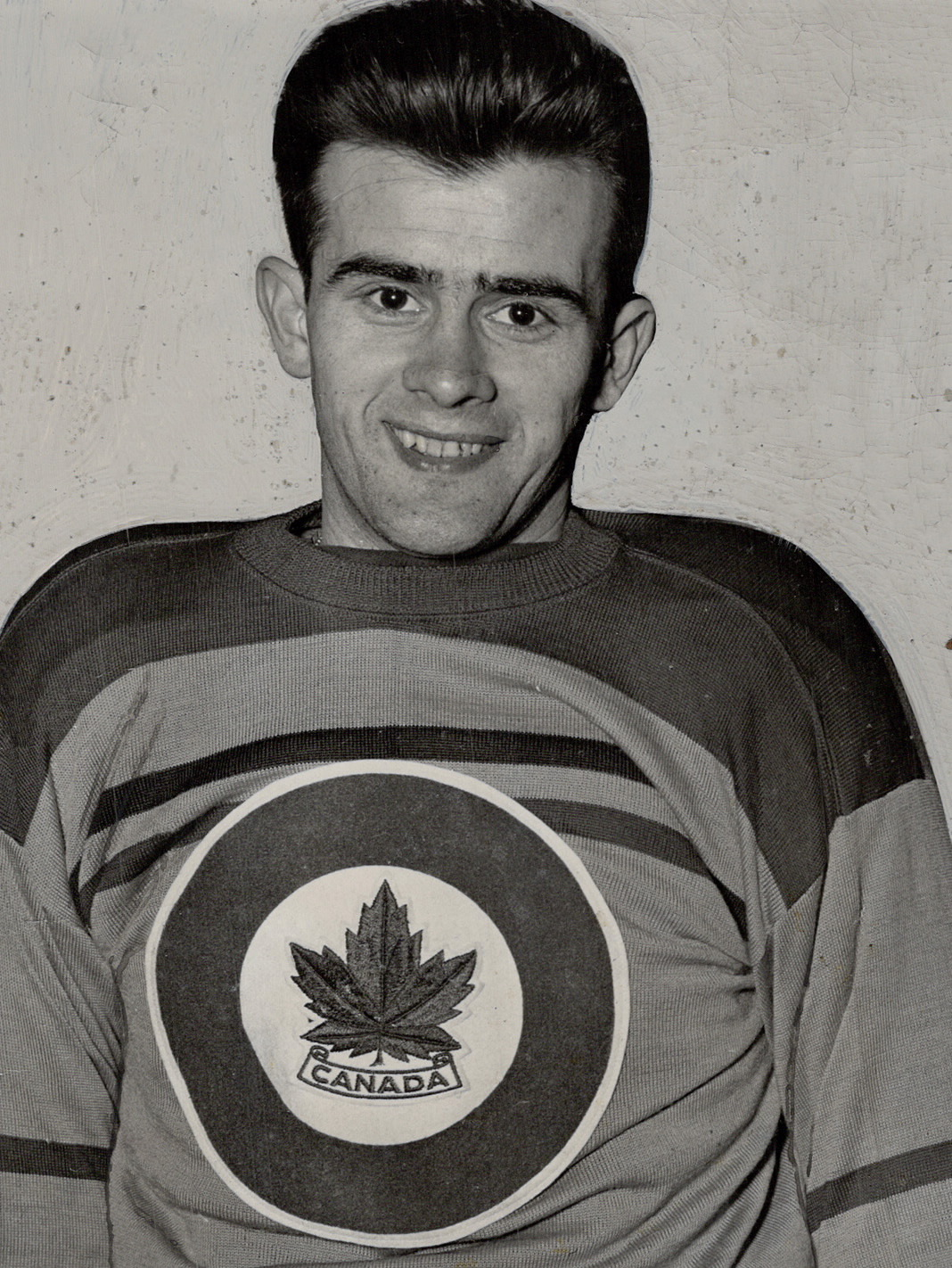 Crowds most noticeable to players were those trying to get into rink. Andre Laperriere; shown here; said Czech officials couldn't do too much for them. We knew something was going on but hardly knew what it was; said team manager.